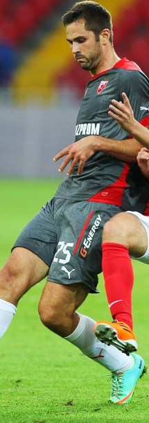 Goran Gogic